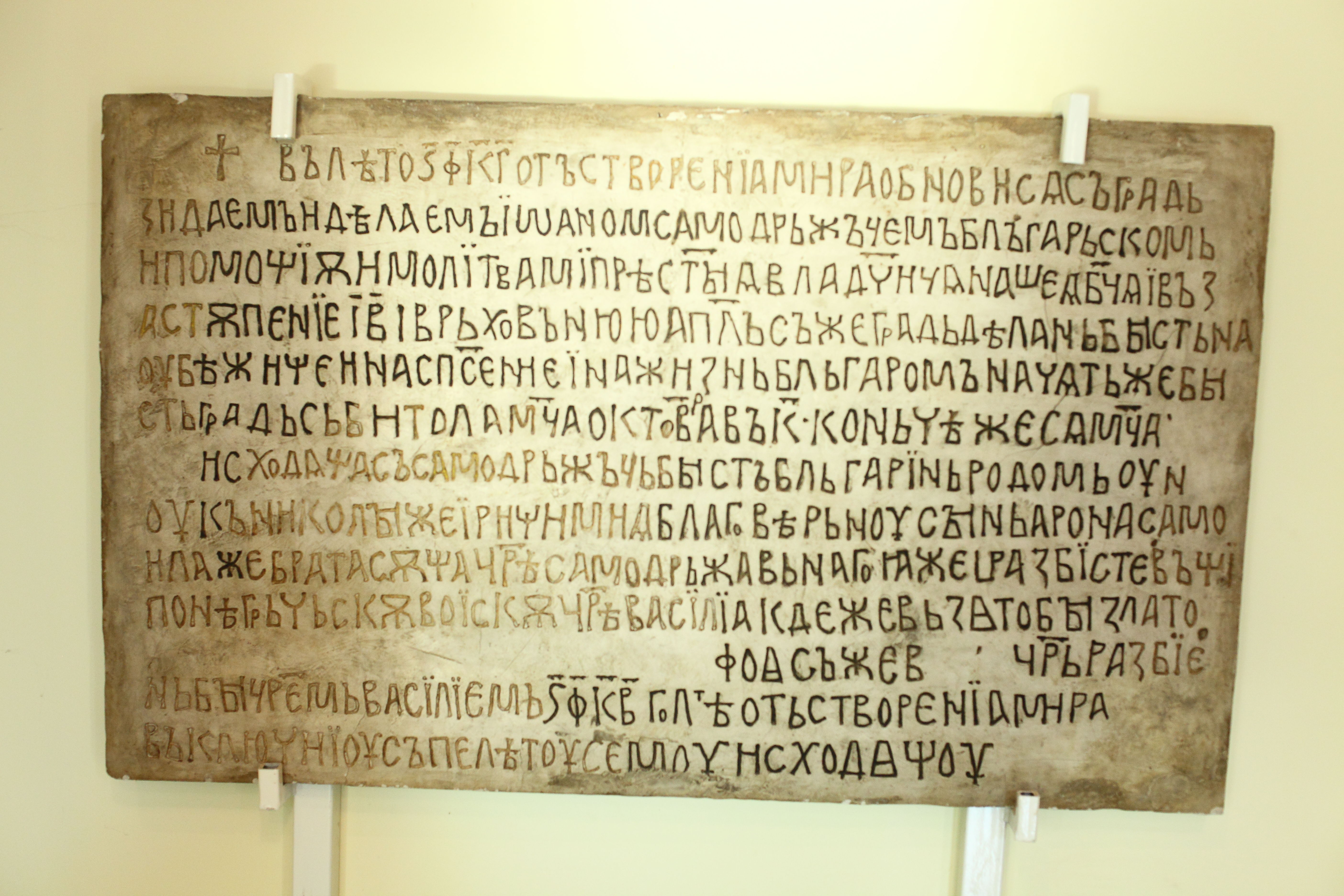 National Historical Museum of Bulgaria, in Sofia: In the year 6523 (= 1015-1016) since the creation of the world, this fortress, built and made by Ivan, Tsar of Bulgaria, was renewed with the help and the prayers of Our Most Holy Lady and through the intercession of her twelve supreme Apostles. The fortress was built as a haven and for the salvation of the lives of the Bulgarians. The work on the fortress of Bitola commenced on the twentieth day of October and ended on the [...] This Tsar was Bulgarian by birth, grandson of the pious Nikola and Ripsimia, son of Aaron, who was brother of Samuil, Tsar of Bulgaria, the two who routed the Greek army of Emperor Basil II at Stipone where gold was taken [...] and in [...] this Tsar was defeated by Emperor Basil in 6522 (= 1014) since the creation of the world in Klyutch and died at the end of the summer